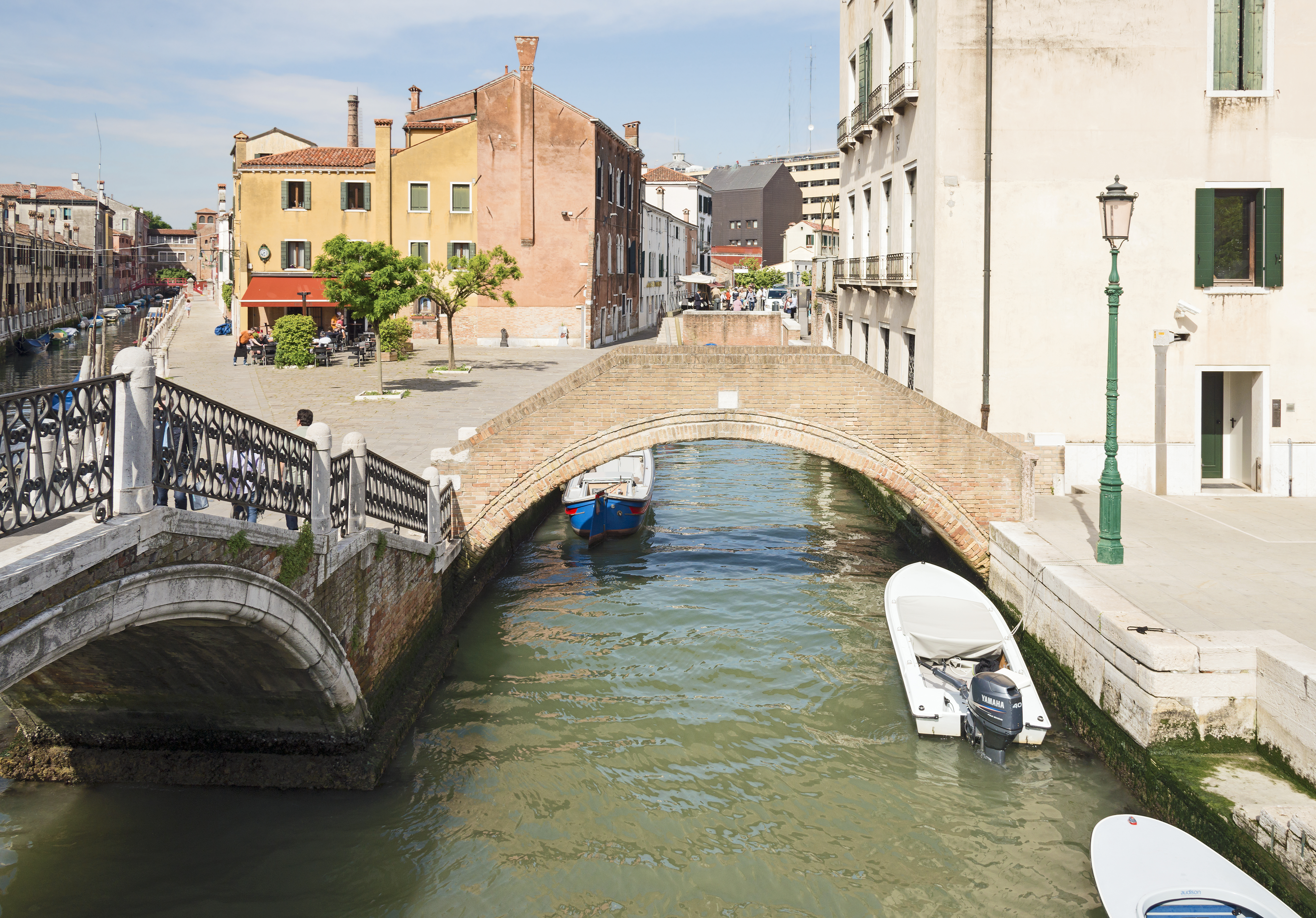 Ponte Cossetti on Rio de Sant'Andrea - Venice